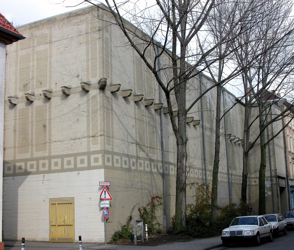 Brunswick, Germany: World War II Bunker Kaiserstraße (picture taken in March 2007).